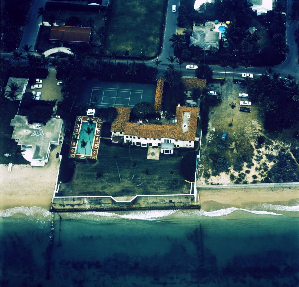 Aerial view of Joseph P. Kennedy Sr.'s estate in West Palm Beach, Florida.